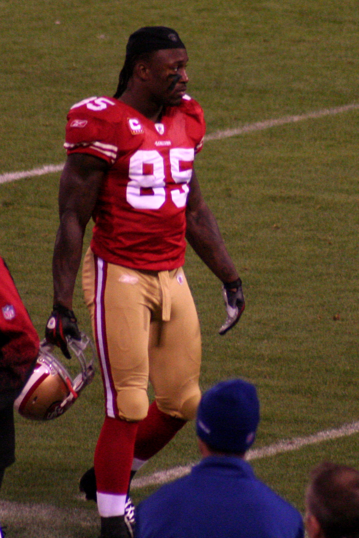 Vernon Davis of the San Francisco 49ers on the sideline